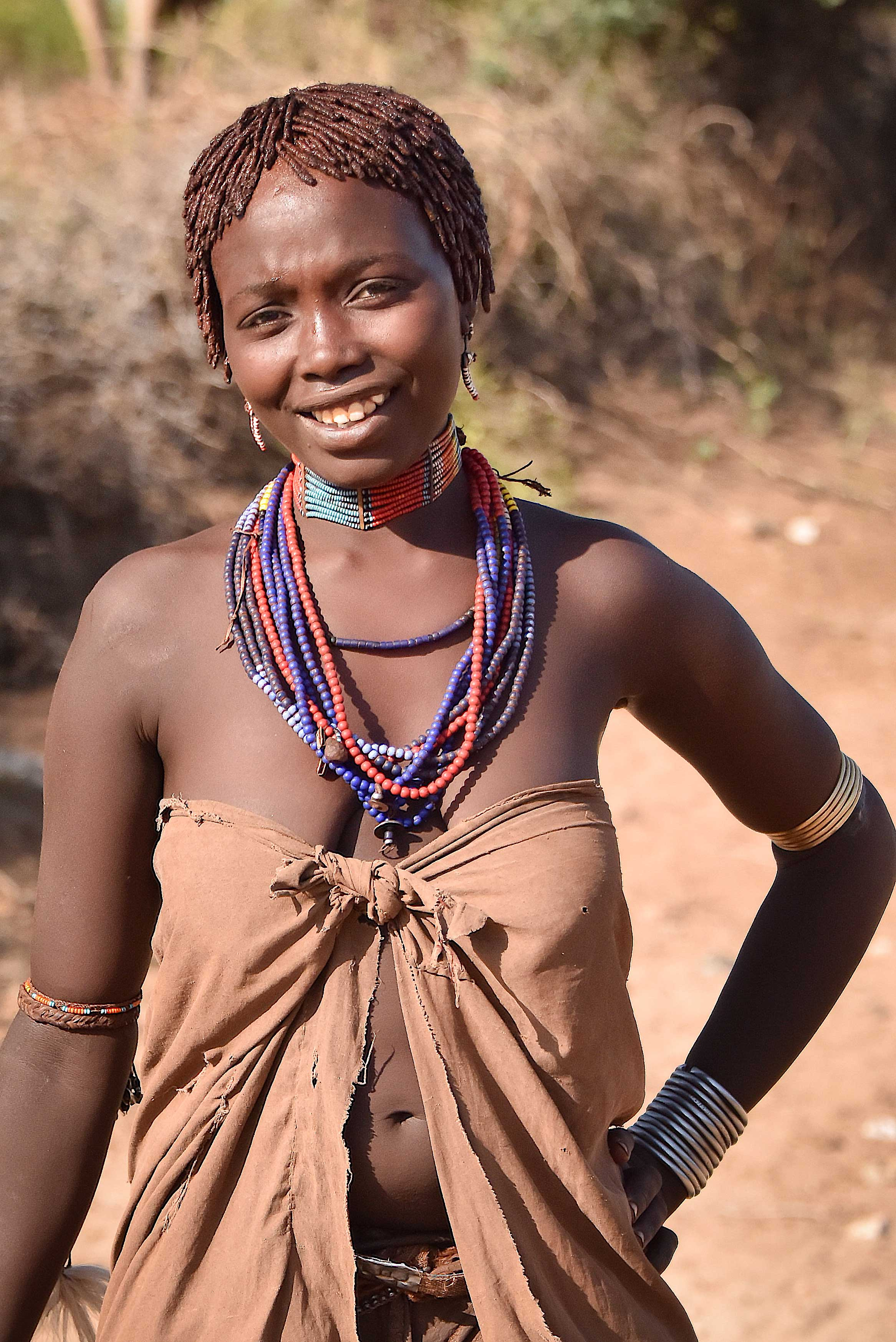 Arbore woman in Omo Valley, Ethiopia.